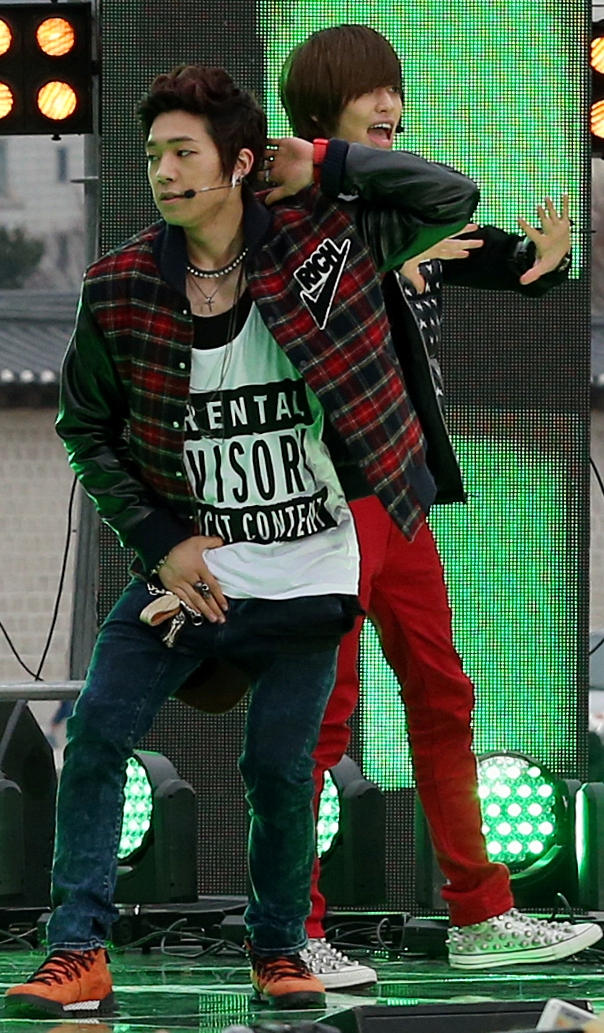 SBS Inkigayo. Teen Top '나랑 사귈래'. Gwanghwamun, Seoul, Korea